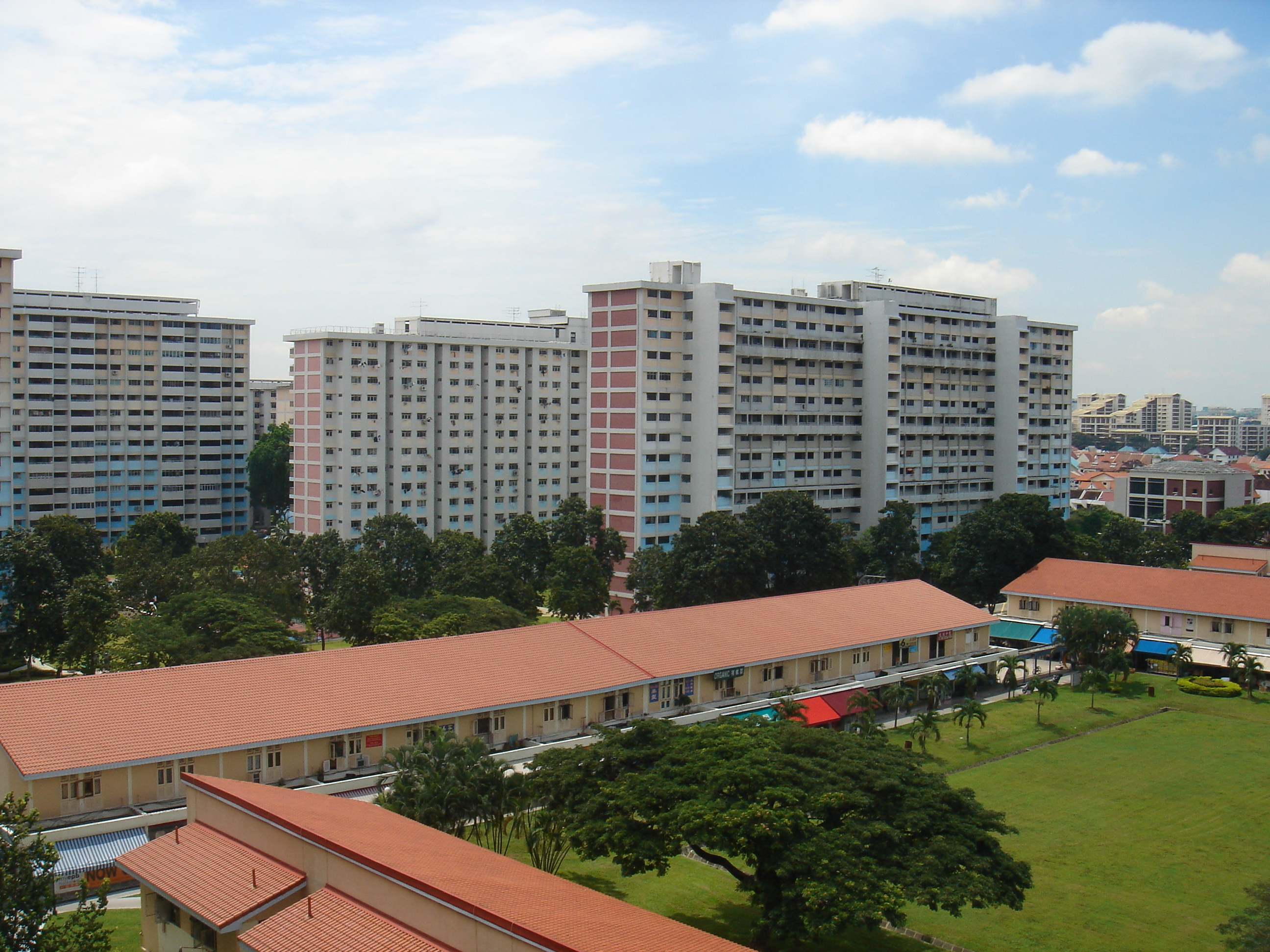 HDB Estate in Eunos, Singapore. It is one of the older estates on the island.